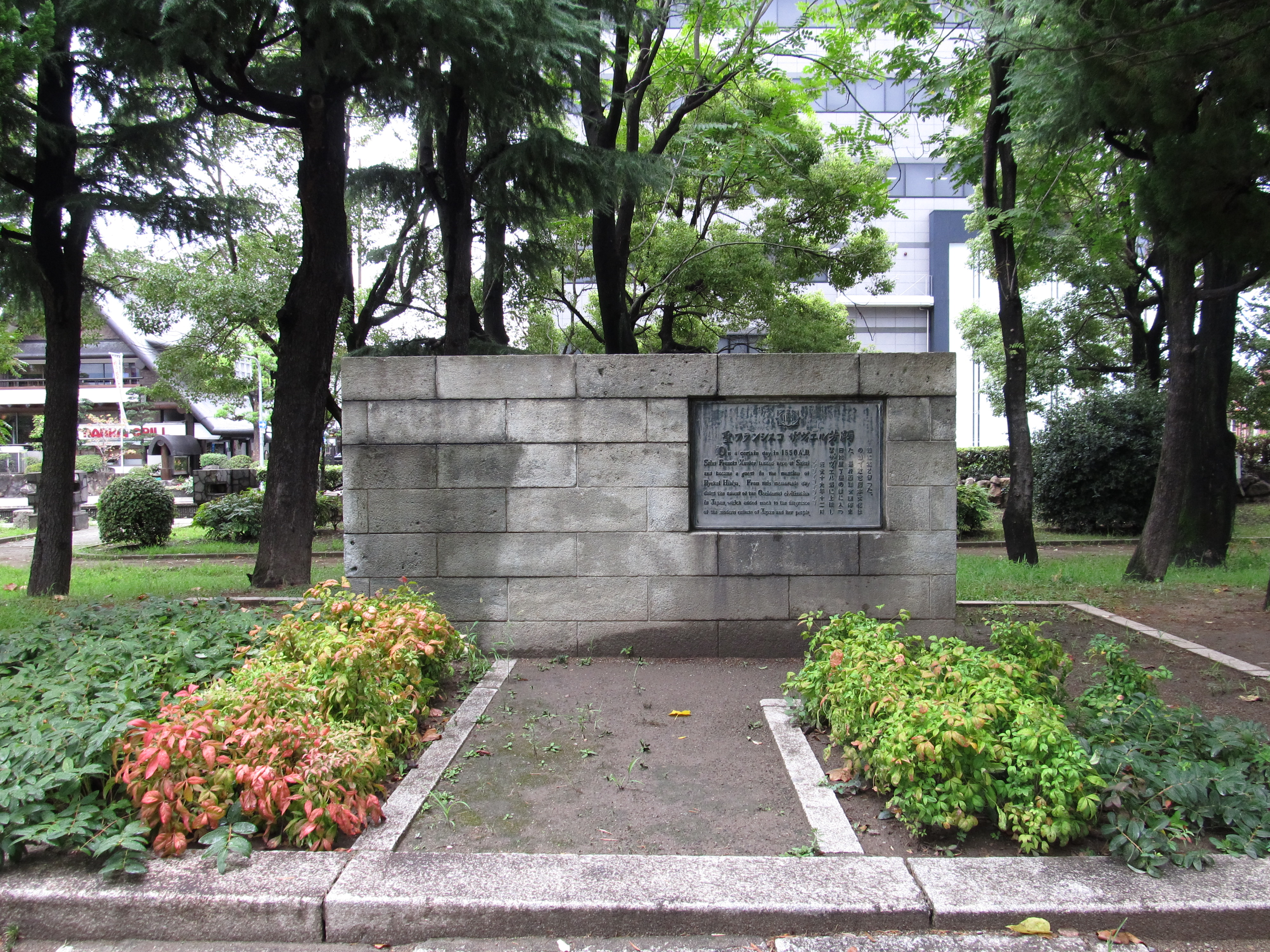 The Monument of Francisco de Xavier's achievements at Ebisu Park (Xavier Park) in Sakai-ku, Sakai city, Ōsaka prefecture.